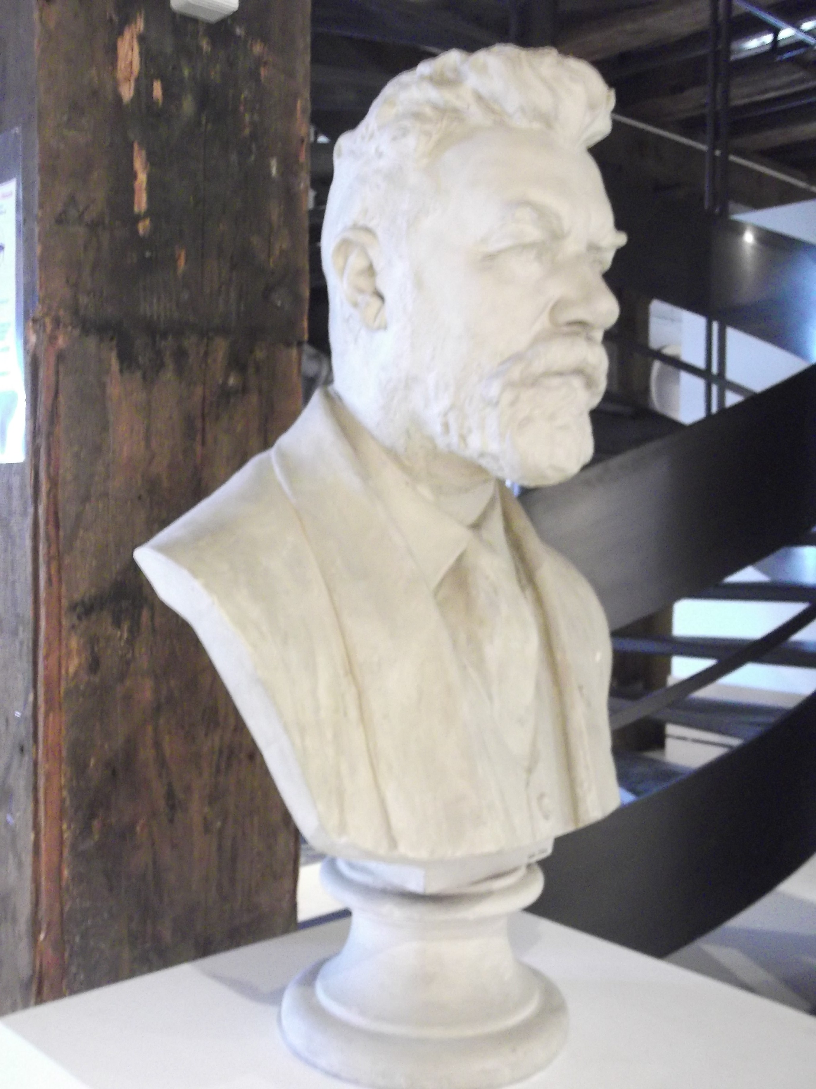 Item KAS 2206, purchased 1989. Bust assumed to be made by Ludvig Brandstrup (1861-1935)